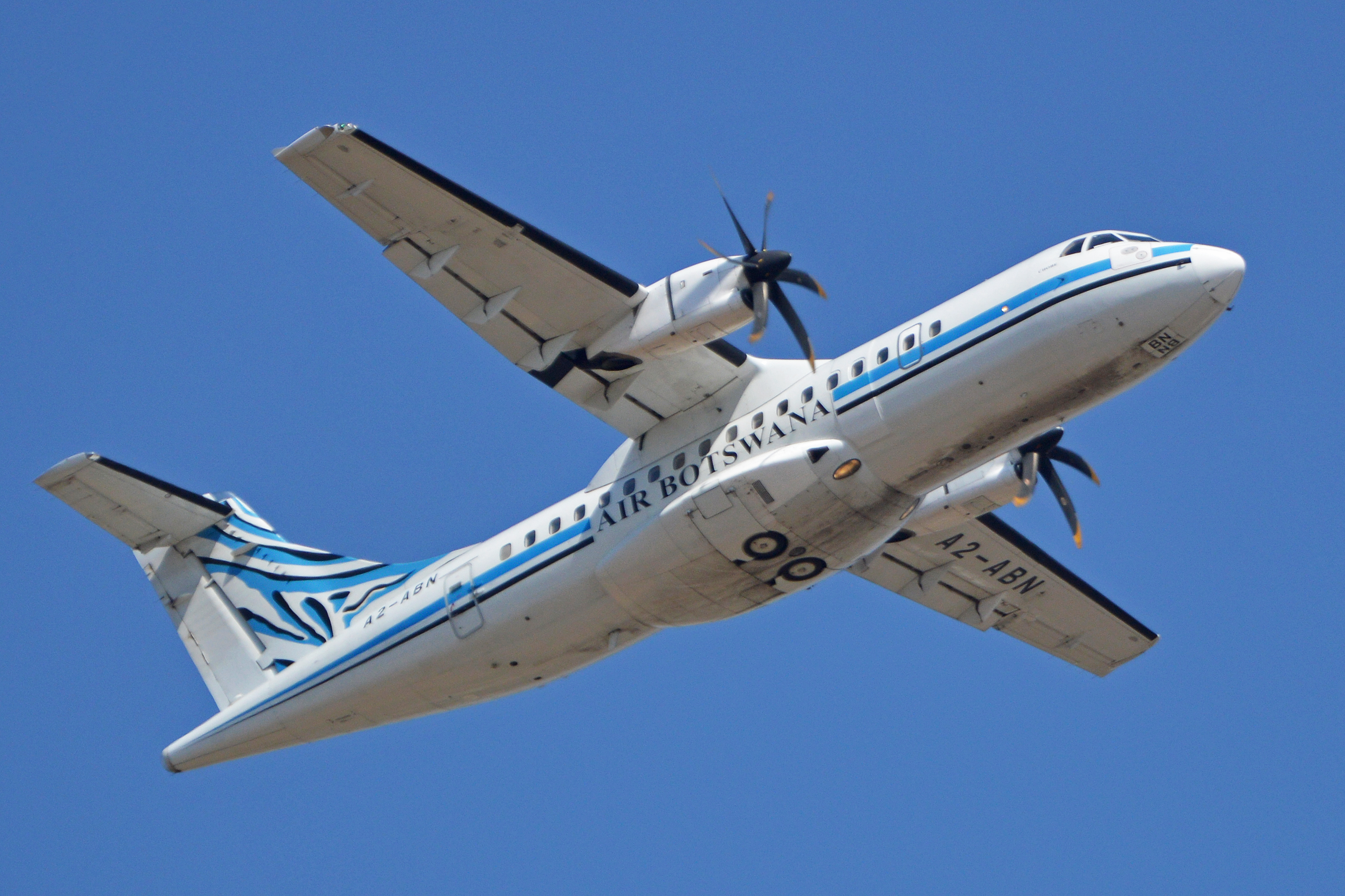 c/n 507. Built in 1996 for Continental Express as 'N33449'. Joined Air Botswana in 2000. Seen departing O.R. Tambo International Airport, Johannesburg, South Africa. 16-9-2014